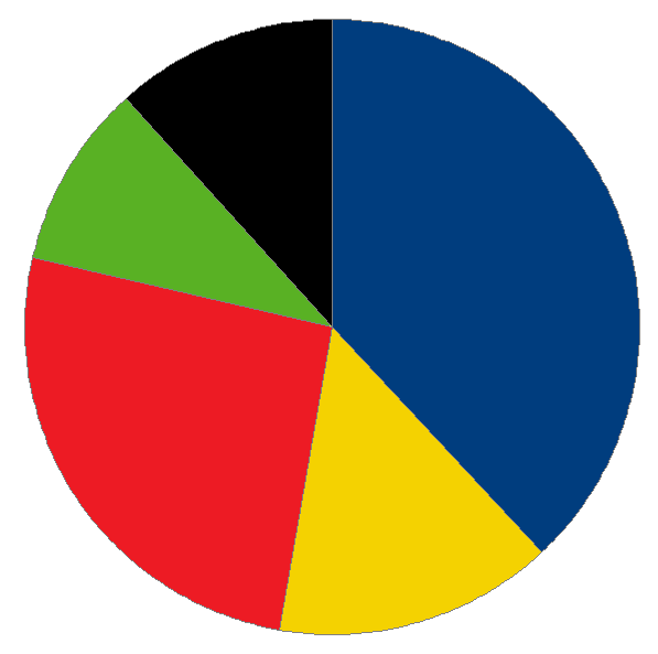 A diagram showing the viewing shares of Swedish television companies in 2006. Colour descriptions: SVT MTG TV4 SBS Others